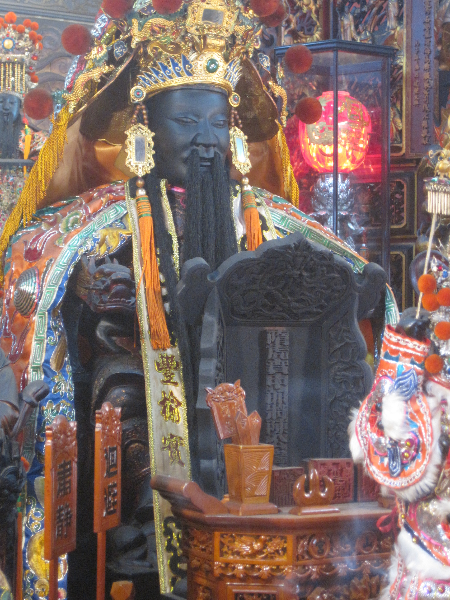 The memorial tablet of General Chen at Kaishan Palace (开山宫), Taiwan